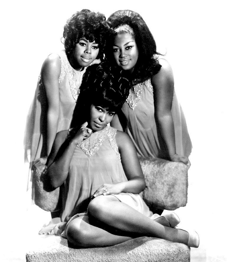 Photo of Shirley and the Shirelles. This subset of The Shirelles was formed after original member Doris Coley left the group in 1968 and performed without her until 1975, when Shirley Owens left for a solo career. Seated-Shirley Owens. Left-Beverly lee, and right, Addie "Micki" Harris.